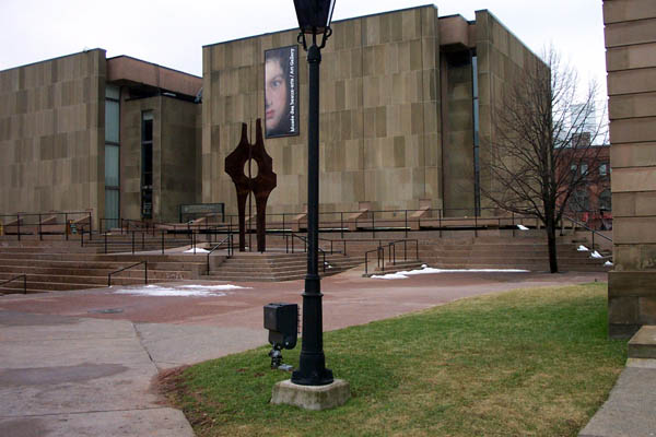 January 21, 2006.